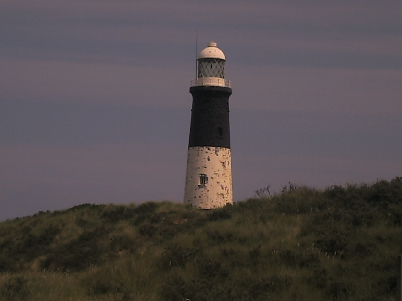 Spurn Point Lighthouse in the distance, East Riding of Yorkshire, England.Copyright Keir Gravil 2005